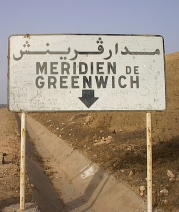 A plate indicating the Greenwich meridian in Stidia, Algeria. Photo taken in July 2005 by François Noël.